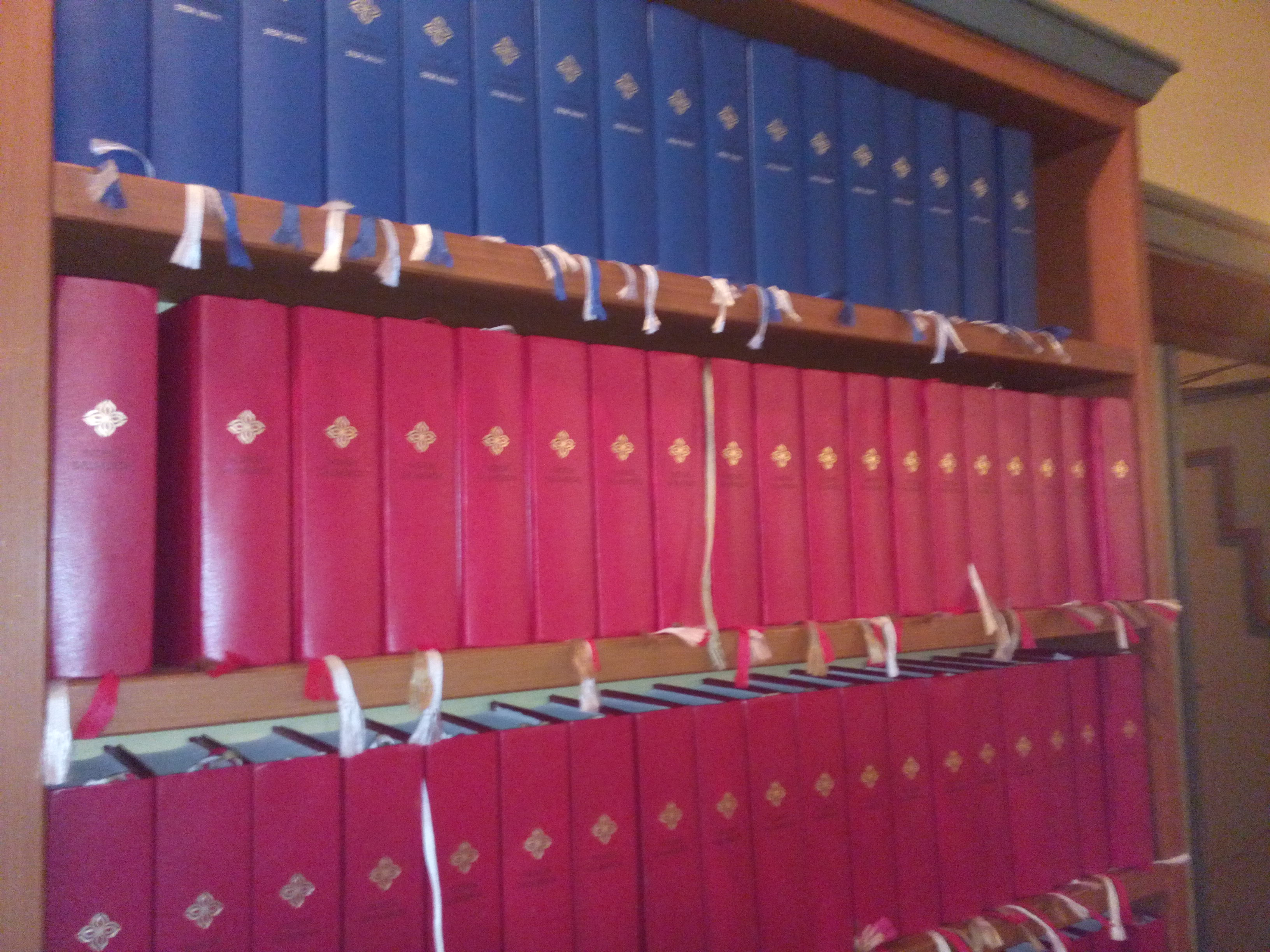 Norsk salmebok 2013 i hylla i Meland kyrkje. / The newest Norwegian hymnal in a shelf in Meland church.